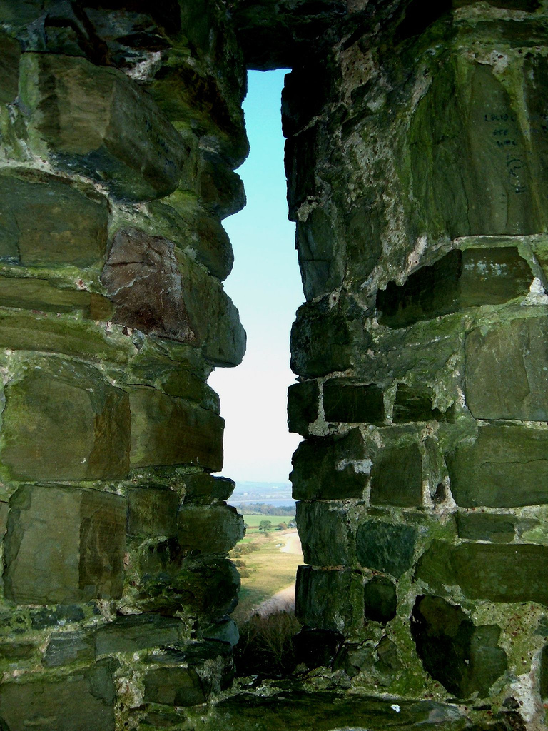 Llansteffan Castle Window